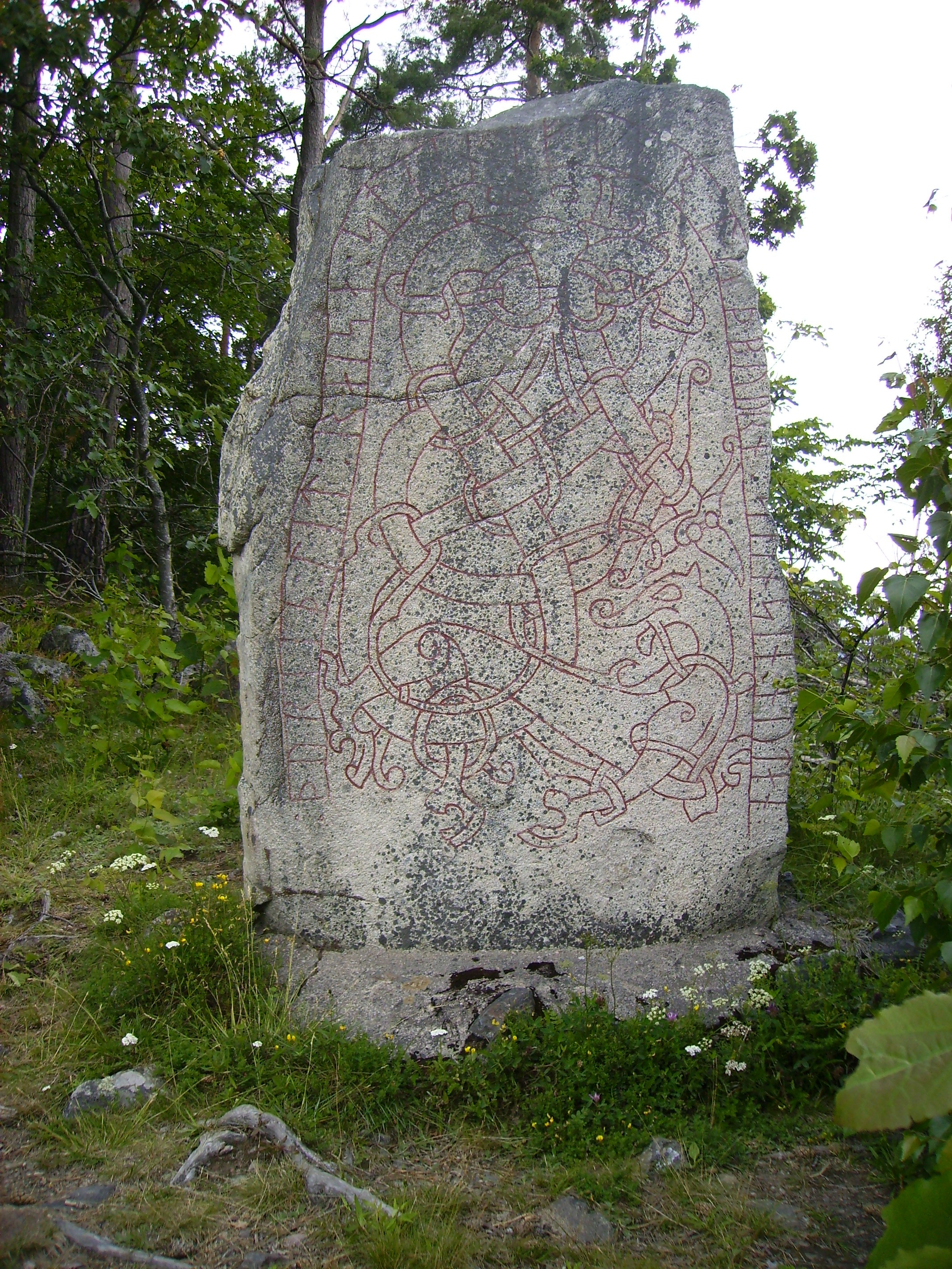 The Nasta rune stone outside of Glanshammar